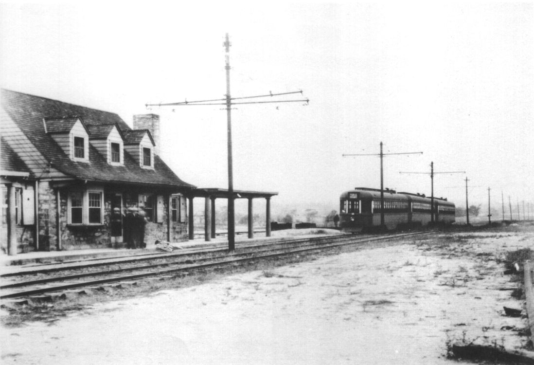 Shaker Rapid Transit in Cleveland, Ohio, USA. A train of three 1200s laying over at Lynnfield terminus of the South Moreland Line probably before 1923.